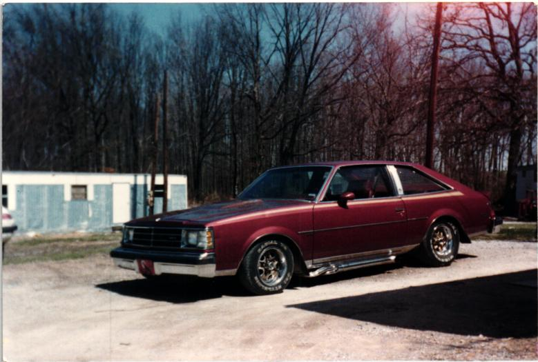 This is a Picture of my 1978 Buick Century Special after I customized it a little. This picture was taken in Tenn.